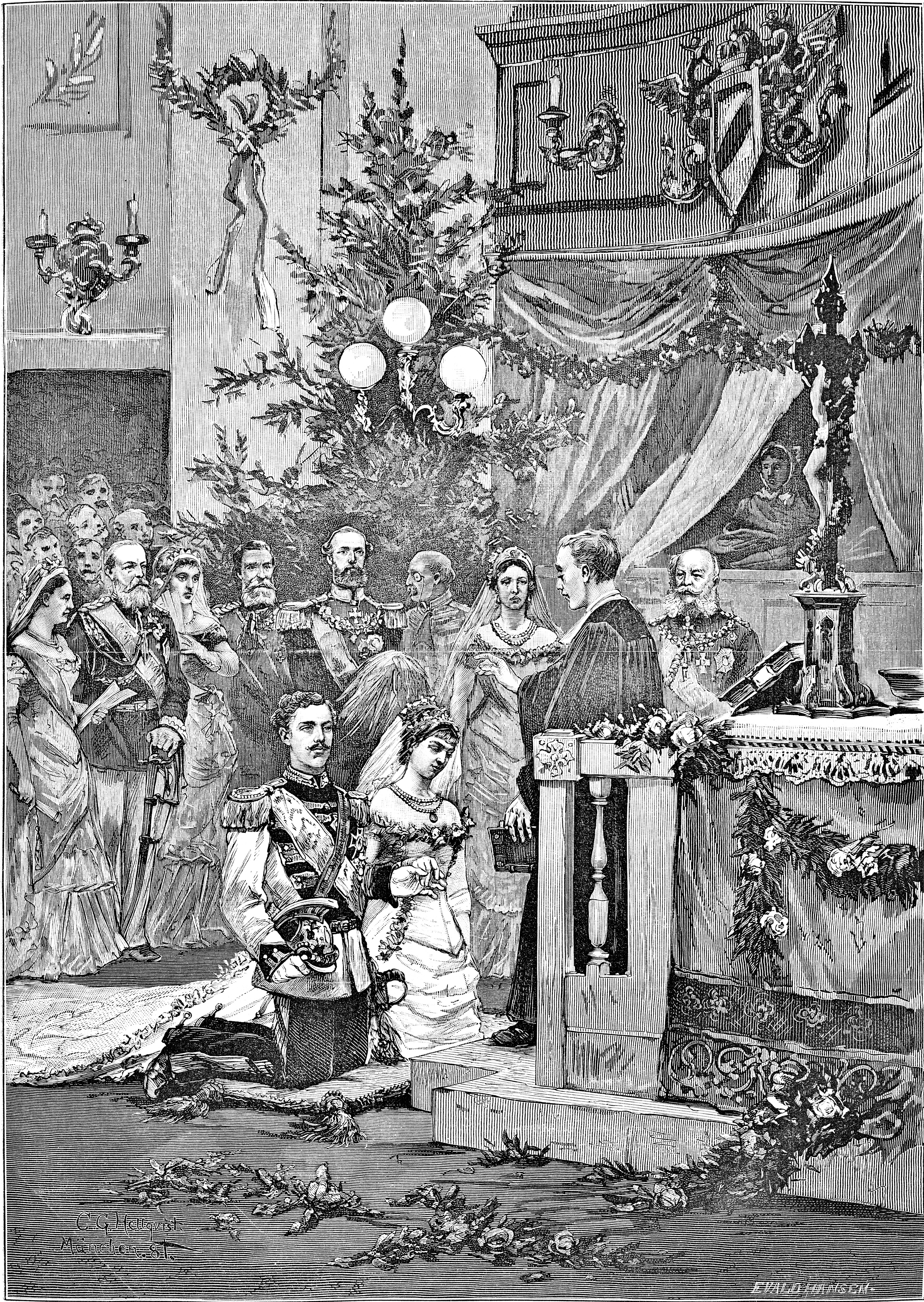 Newspaper illustration of the wedding between princess Victoria of Baden and crown prince Gustaf of Sweden in Karlsruhe 1881.Xylographic illustration by Carl Gustaf Hellqvist.